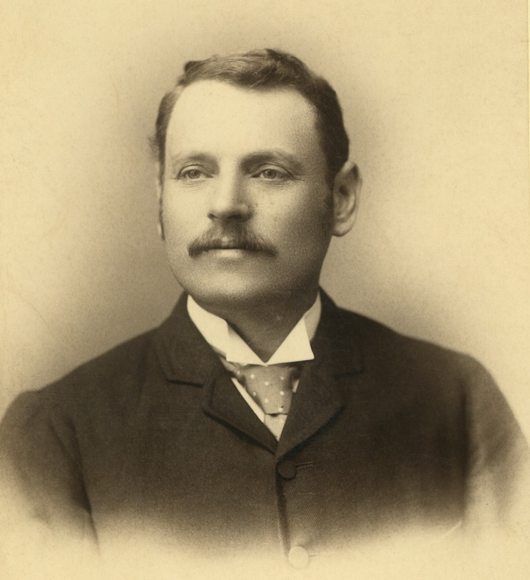 Portrait of John Hannah Gordon.